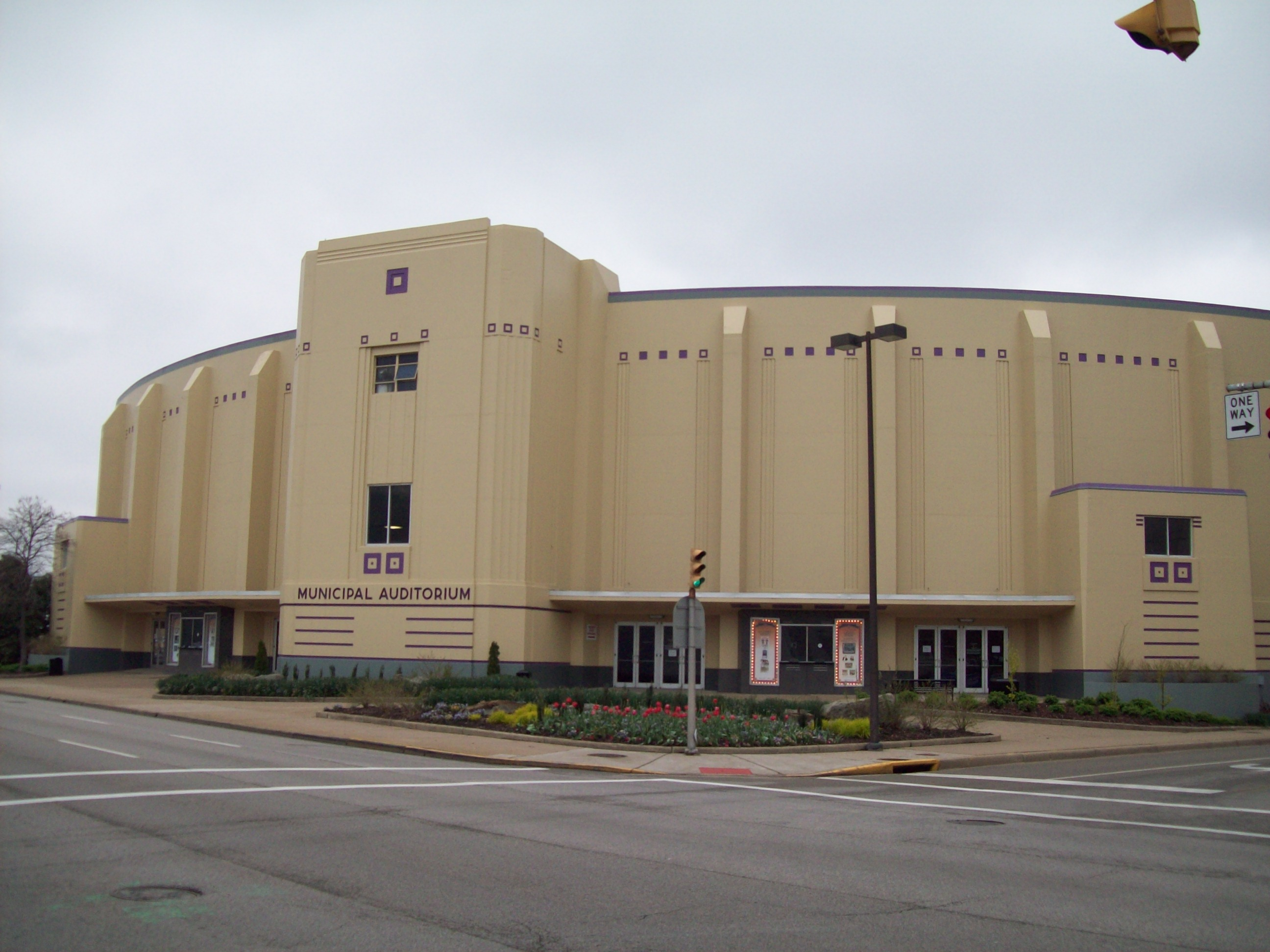 Charleston Municipal Auditorium, April 2009